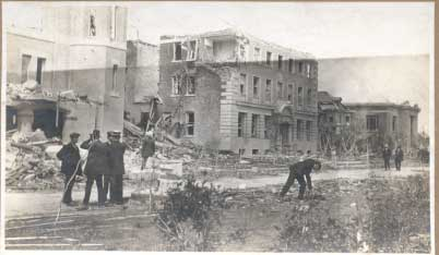 Photo of June 30, 1912 cyclone in Regina, Saskatchewan